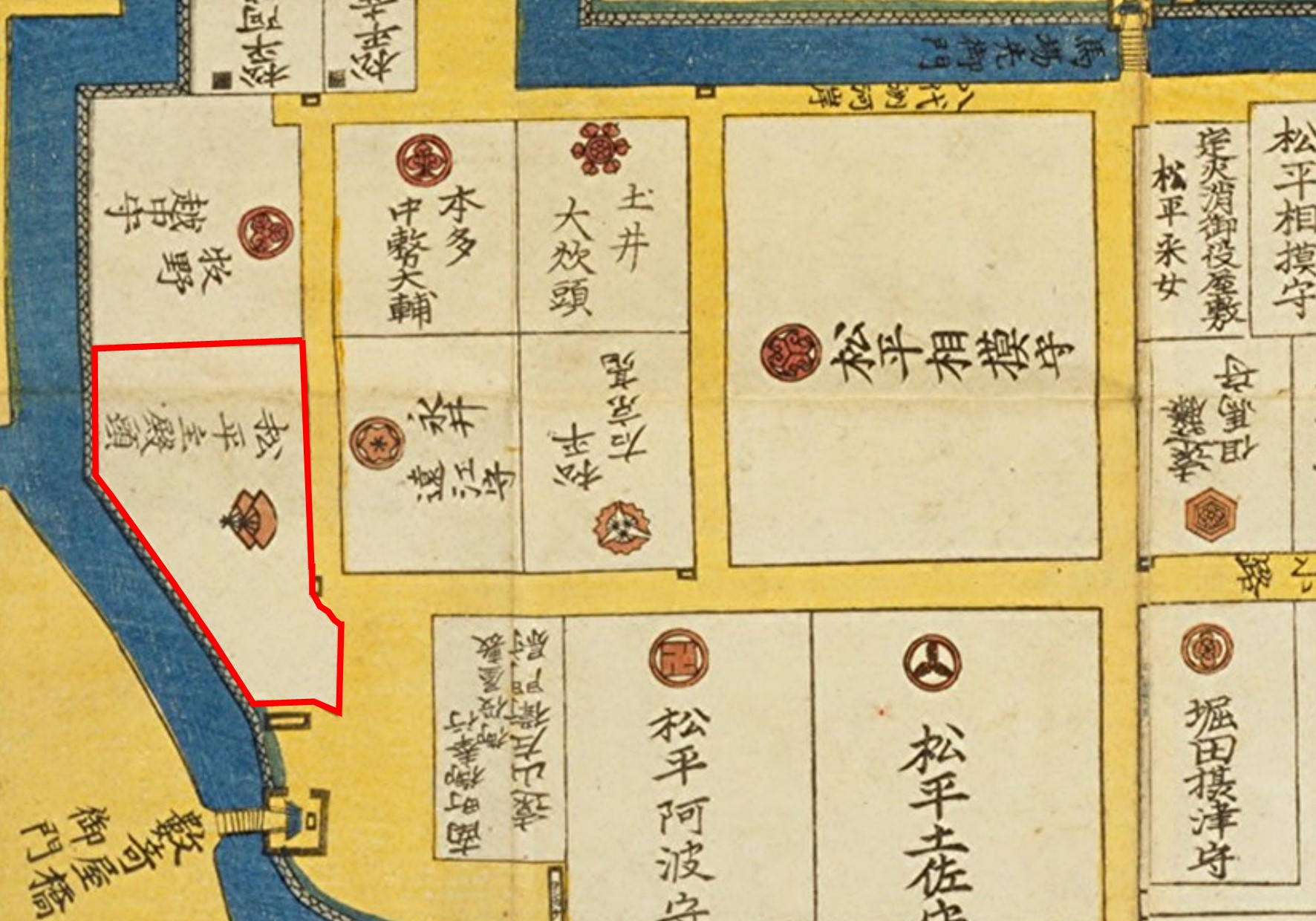 Residence of Fukôzu clan at Edo